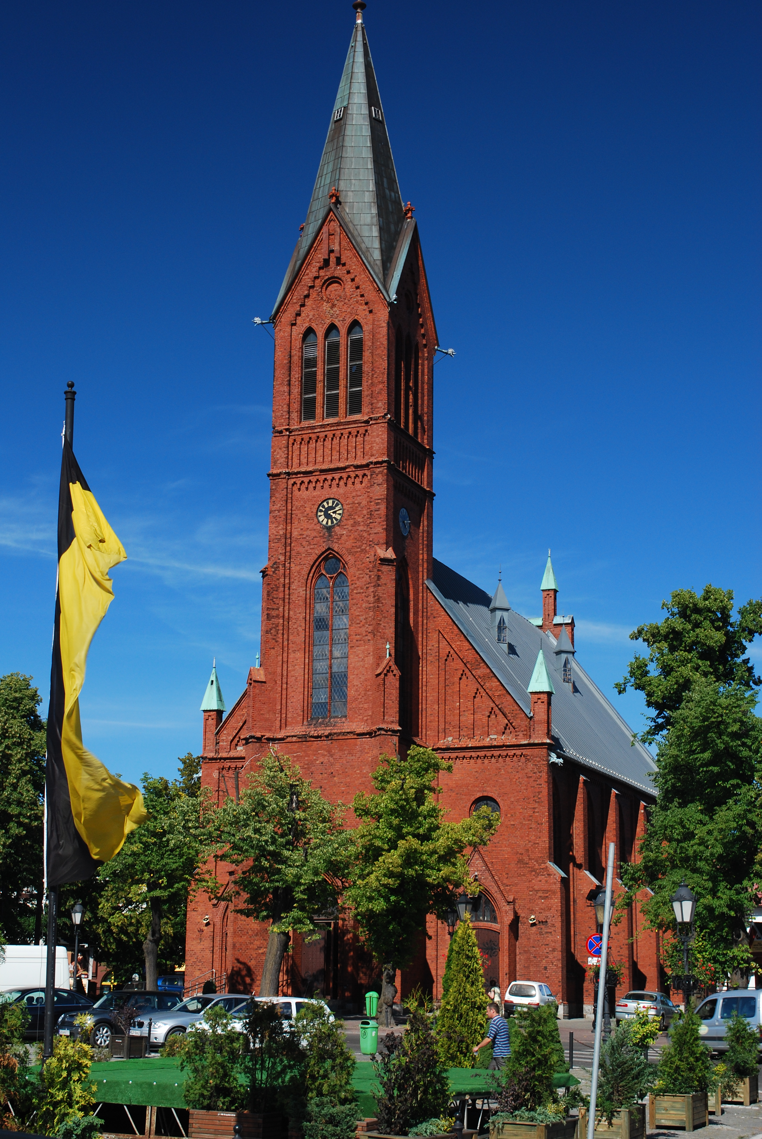 Parish church in Kartuzy, Poland.